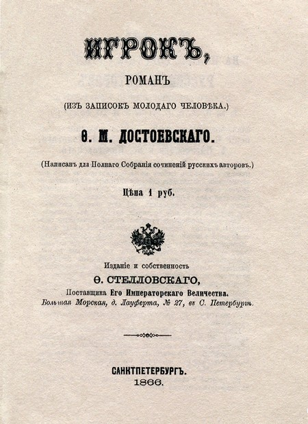 The Gambler (novel) 1866 first edition cover